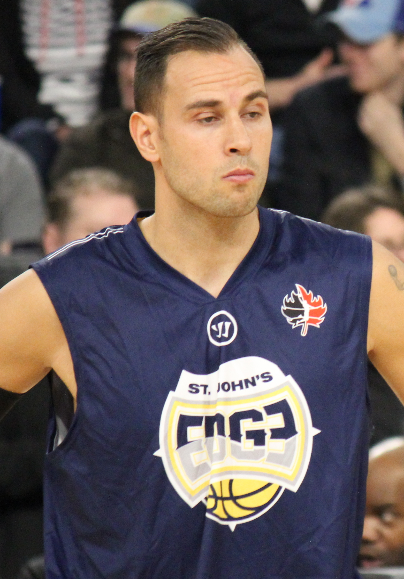 halifax